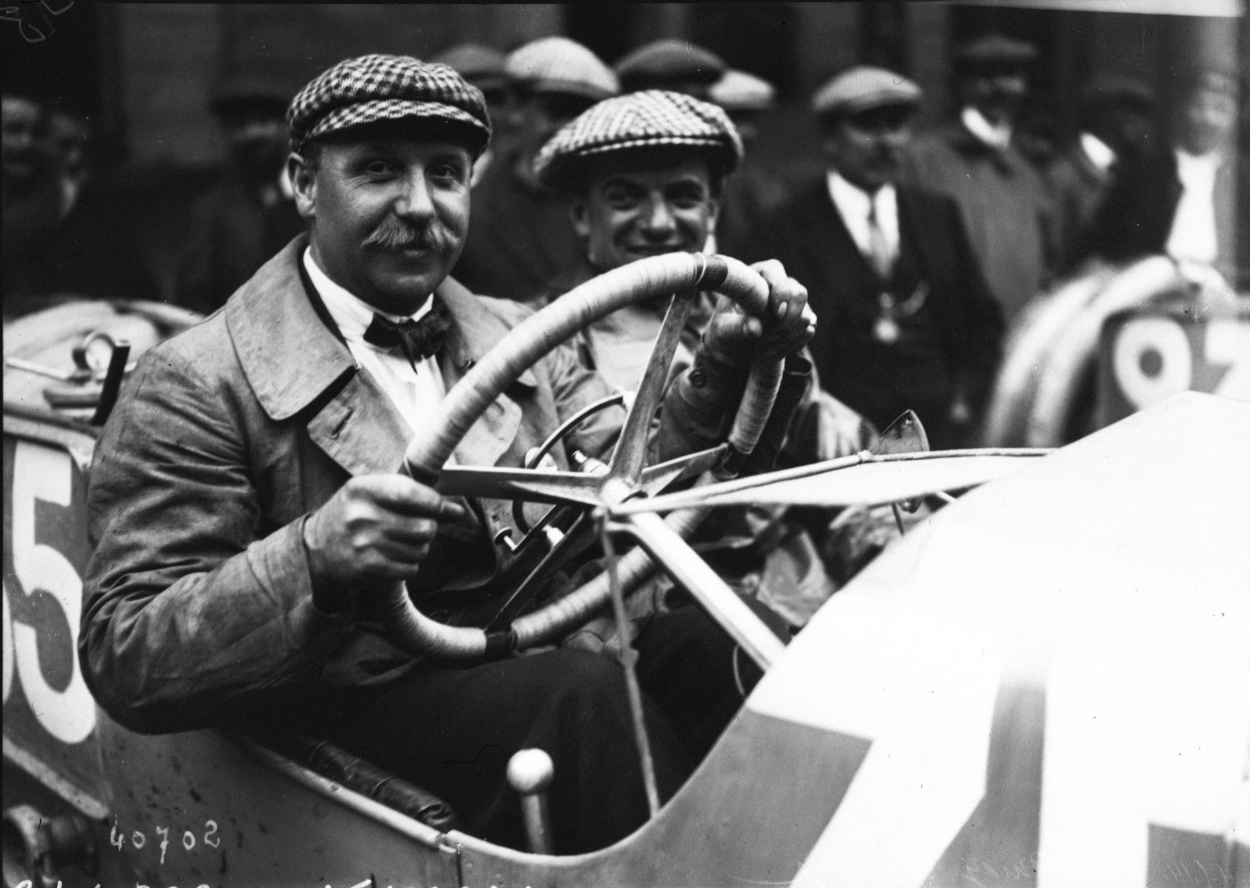 Arthur Duray at the 1914 French Grand Prix